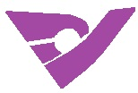 Shimojo Nagano chapter